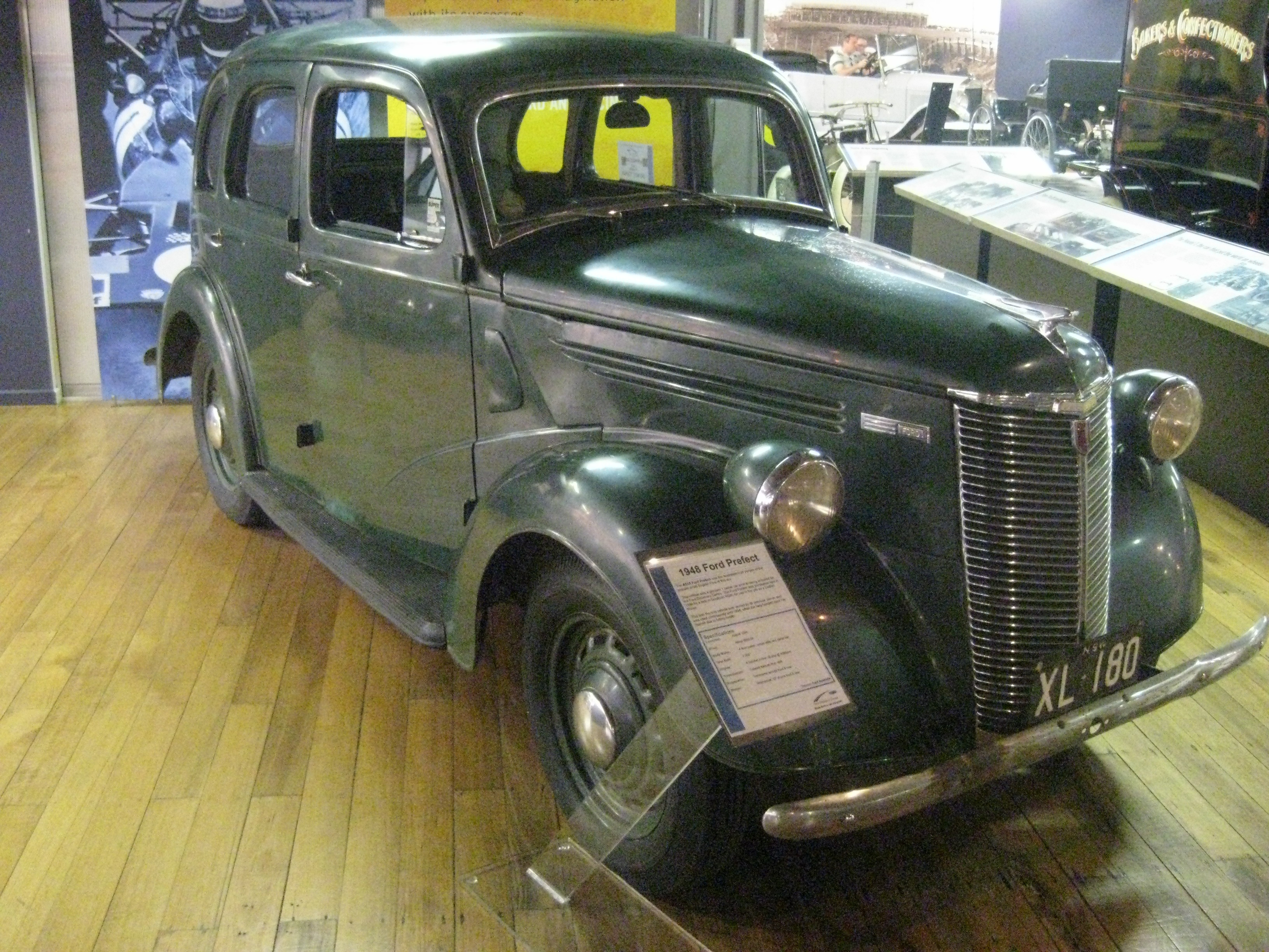 Ford Prefect A53A of 1948. This is the Australian built variant of the English Ford Prefect E93A. It was offered as a 4 door sedan (pictured), as a coupe utility and as a panel van.